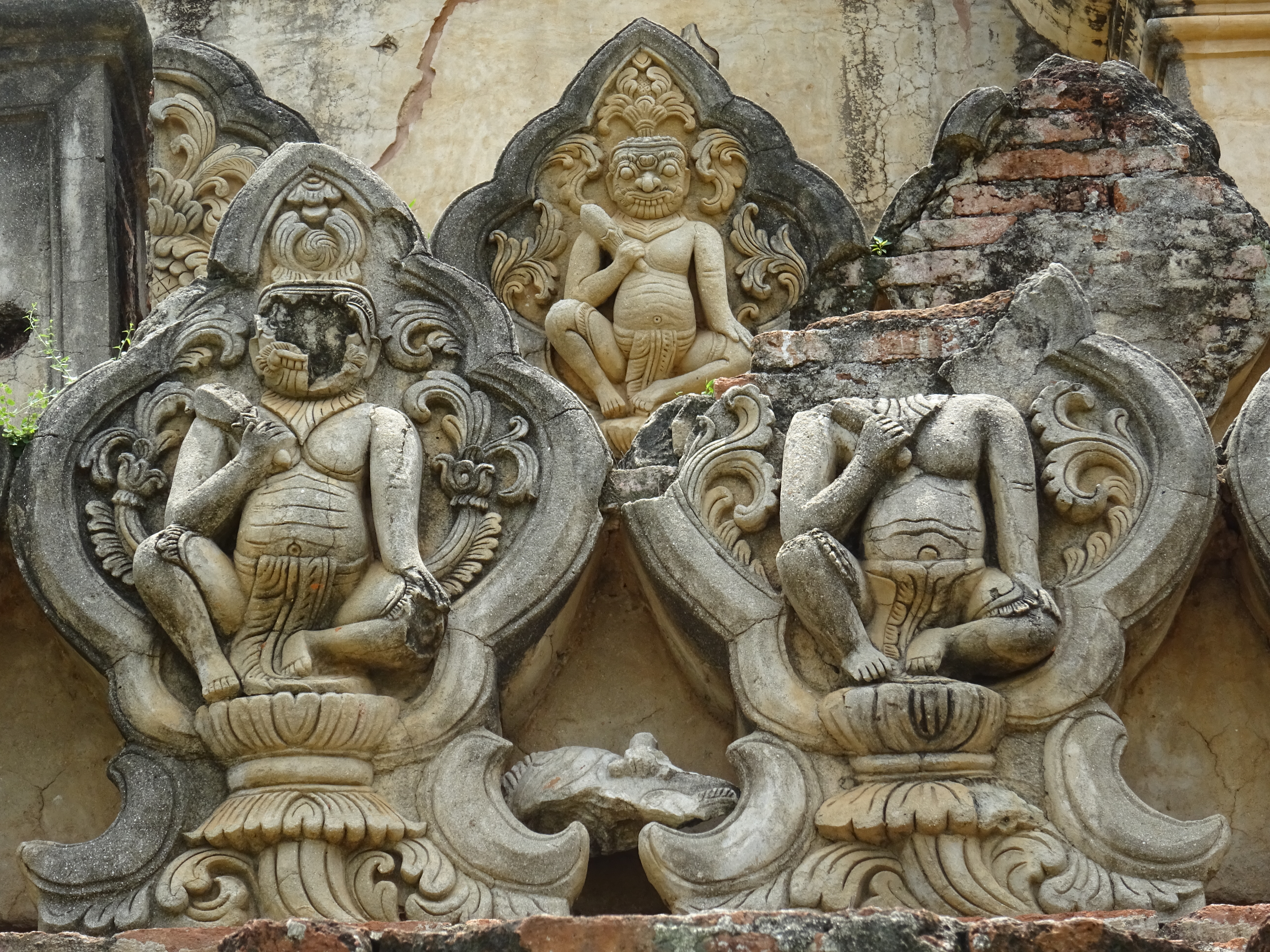 Lay Htat Kyee Pagoda in Inwa, Myanmar.